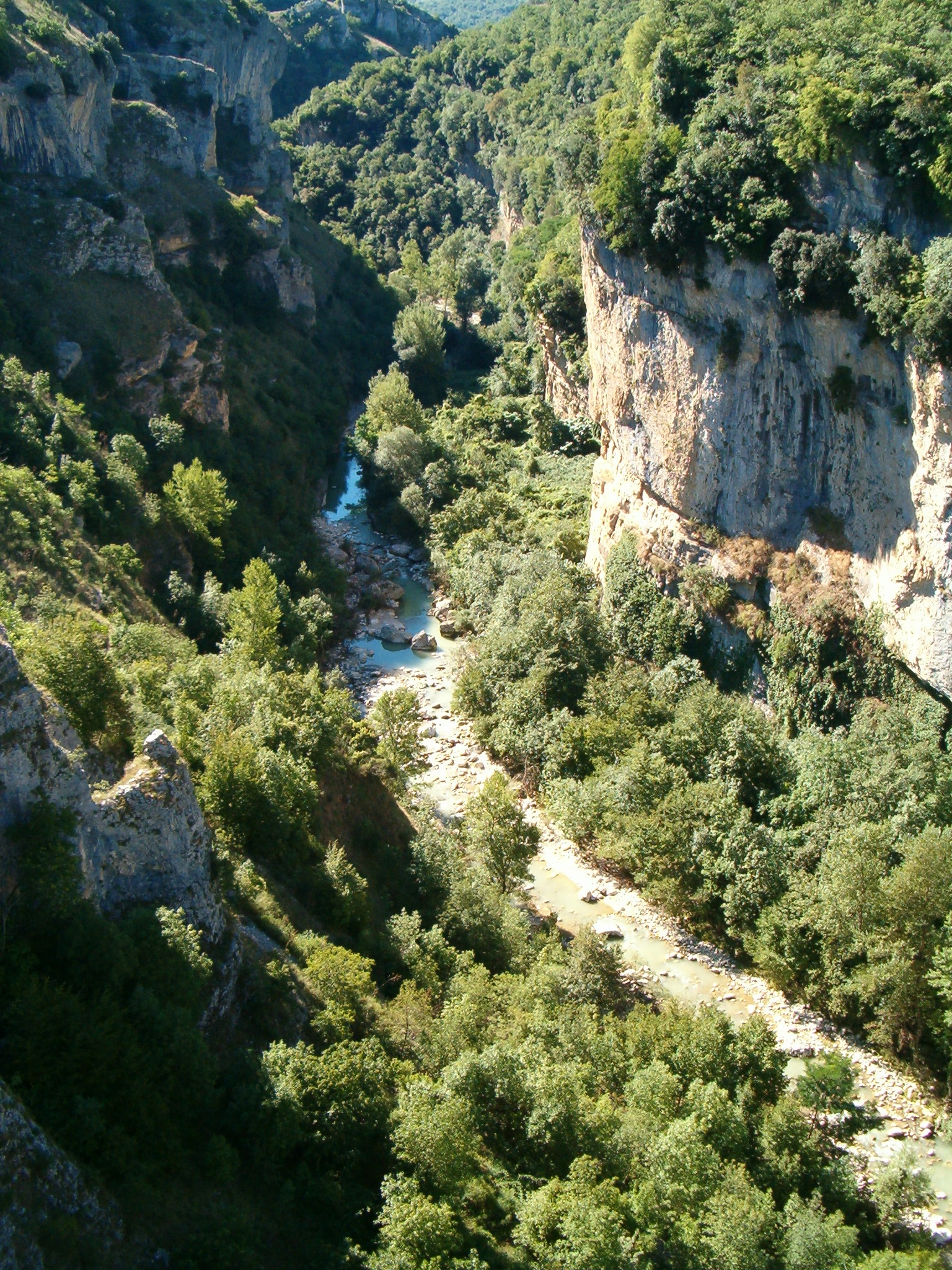 Orta river.